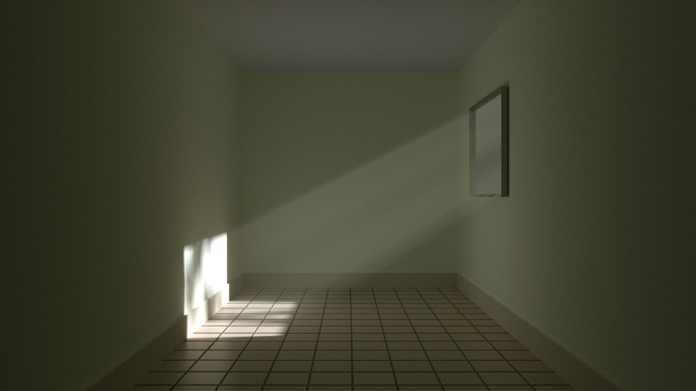 Environment lighting tests on blender 3d